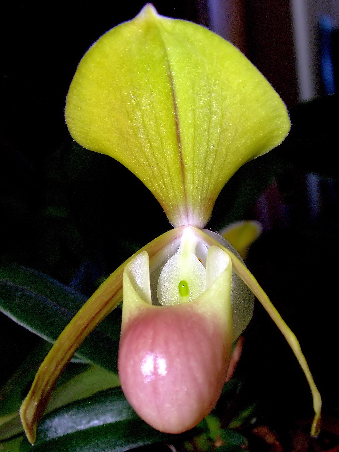 Paphiopedilum helenae